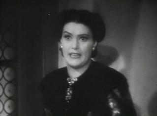 Cropped screenshot of Barbara O'Neil from the trailer for the film All This, and Heaven Too.